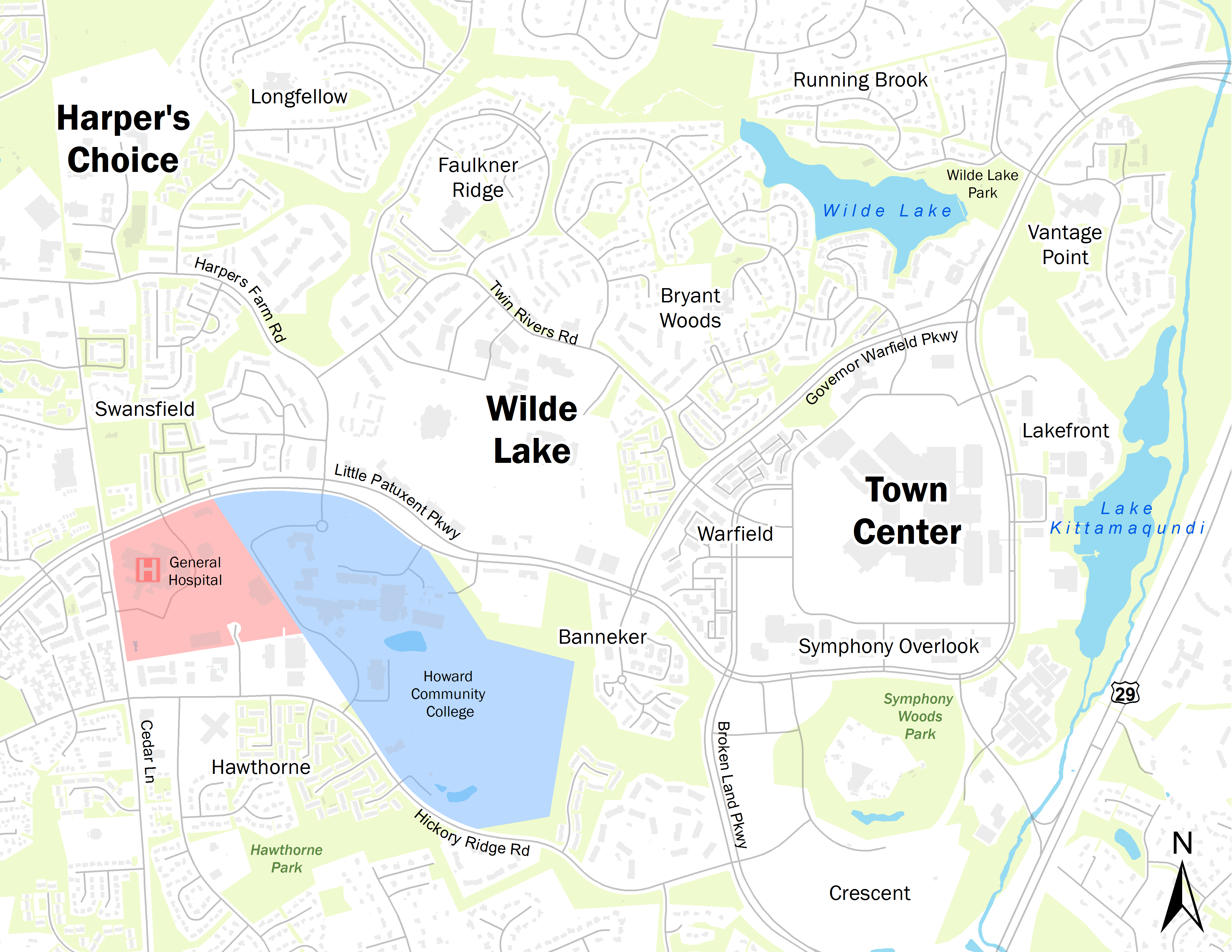 A map of Downtown Columbia, MD and vicinity.